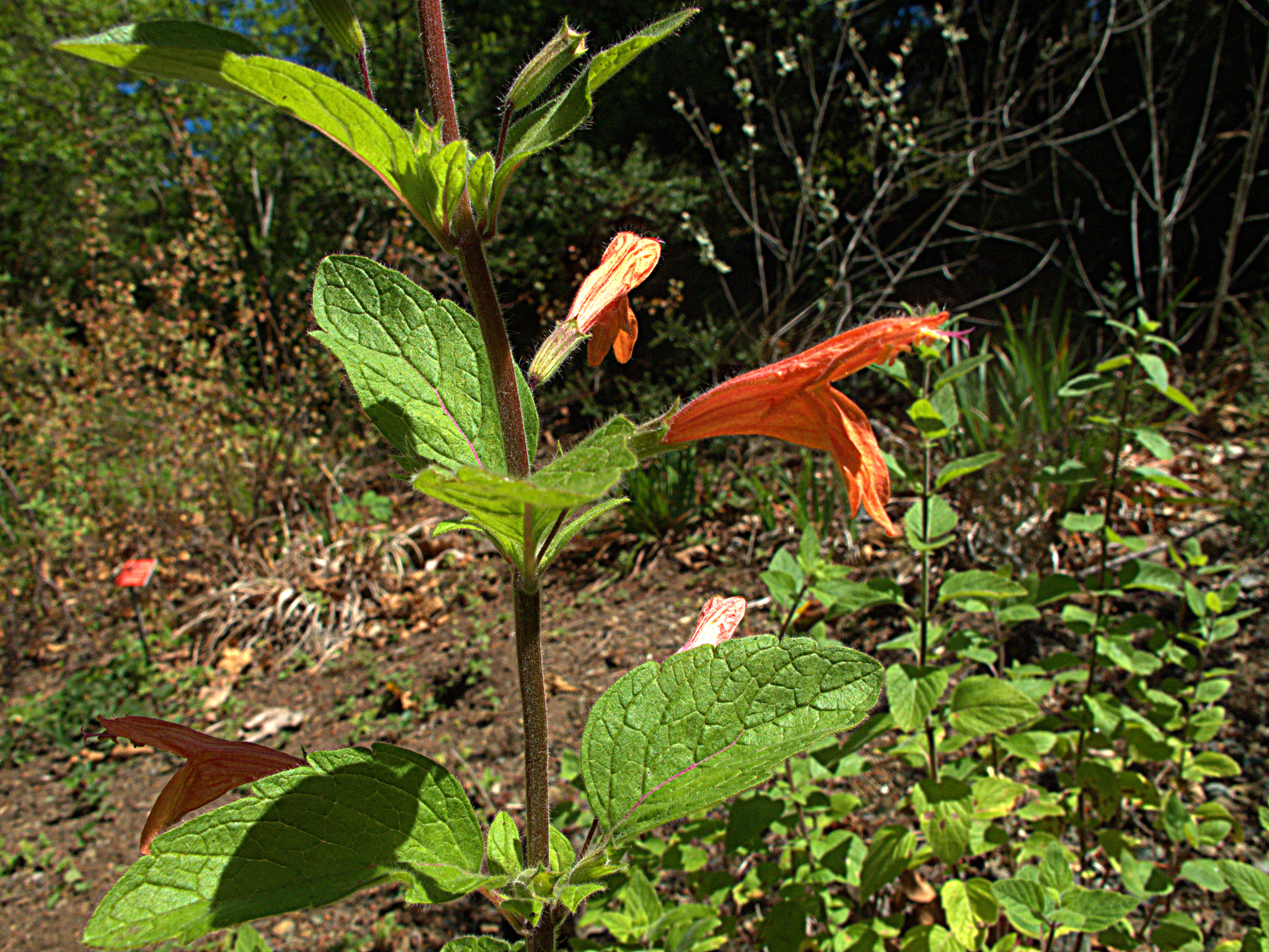 Clinopodium mimuloides—monkey flower savory. Included in the CNPS Inventory of Rare and Endangered Plants on list 4.2 (limited distribution). The late Bert Wilson of Las Pilitas Nursery warned, "Do not cut the flowers on a warm sunny day or you will be bombed by squadrons of hummingbirds!" Found from the Santa Lucia Mountains to the San Gabriel Mountains. Photographed at Regional Parks Botanic Garden located in Tilden Regional Park near Berkeley, CA.